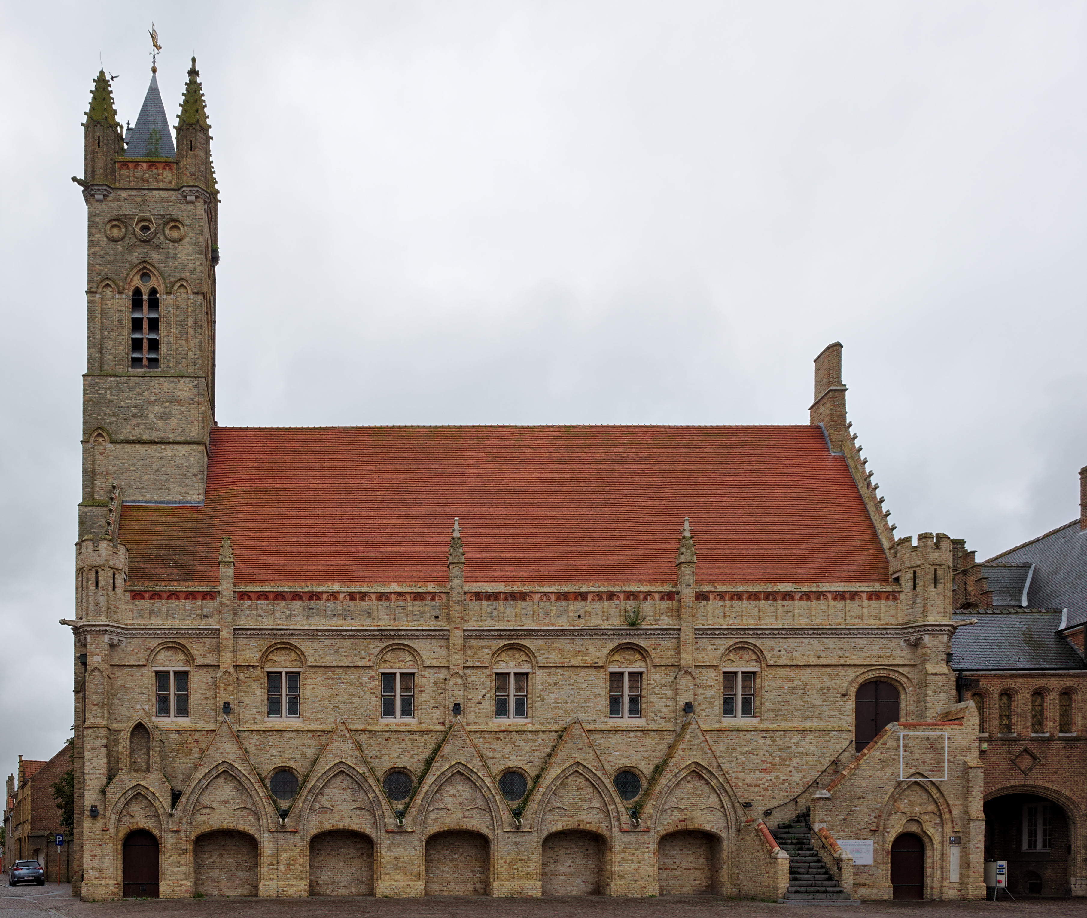 Belfry of Nieuwpoort This photo of immovable heritage has been taken in the Flemish Region This place is a UNESCO World Heritage Site, listed as Belfries of Belgium and France.